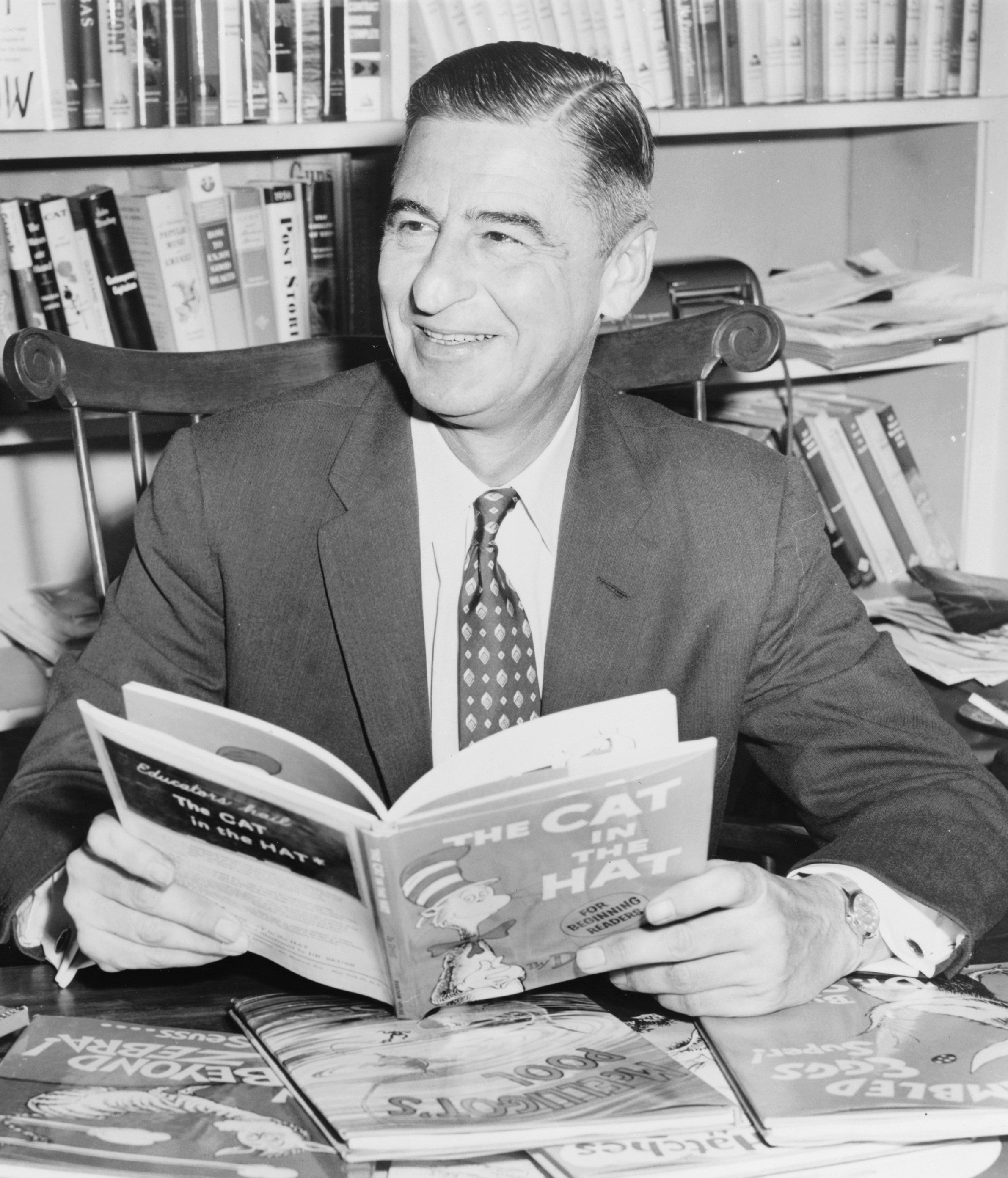 Ted Geisel (Dr. Seuss) half-length portrait, seated at desk covered with his books / World Telegram & Sun photo by Al Ravenna.